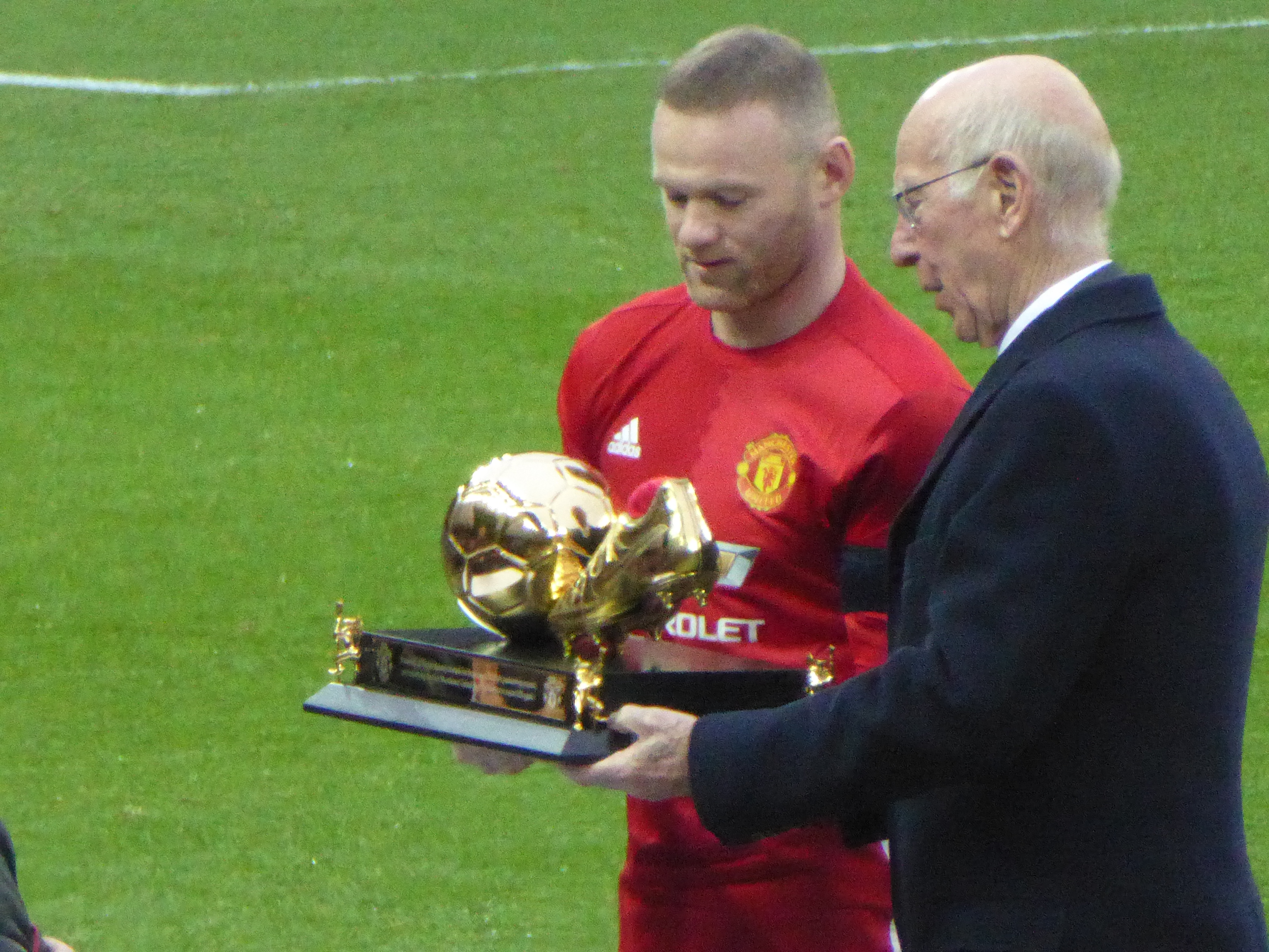 Manchester United v Wigan Athletic (4-0), FA Cup, Old Trafford, Manchester, Greater Manchester, England, 29 January 2017